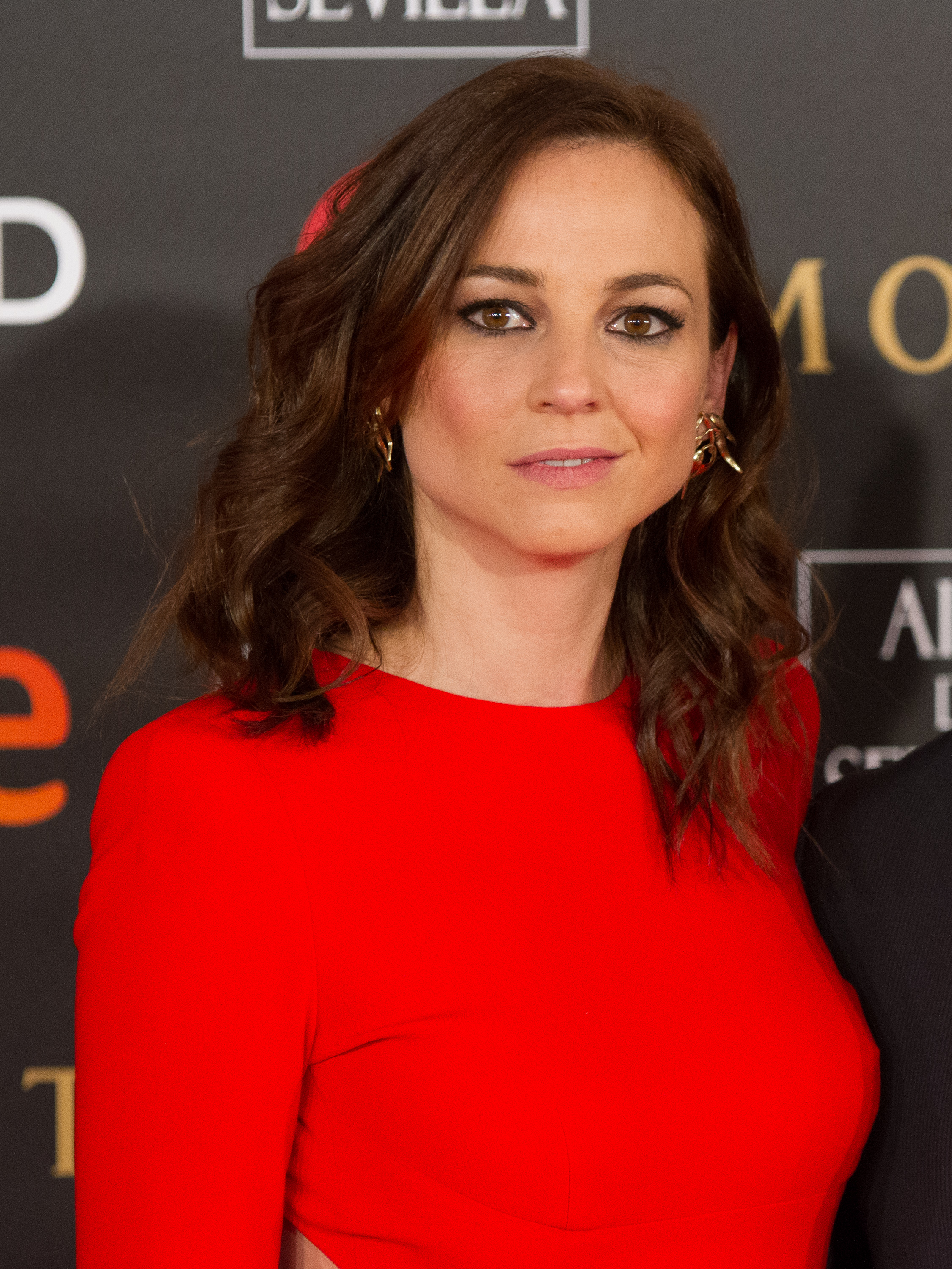 32nd Goya Awards, 2018.